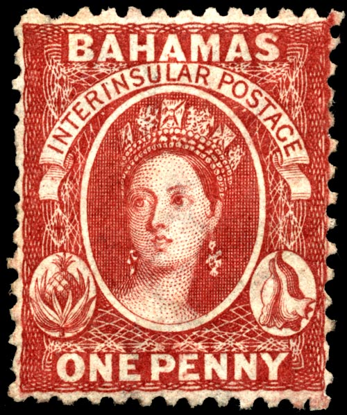 Bahamas 1p stamp of 1863